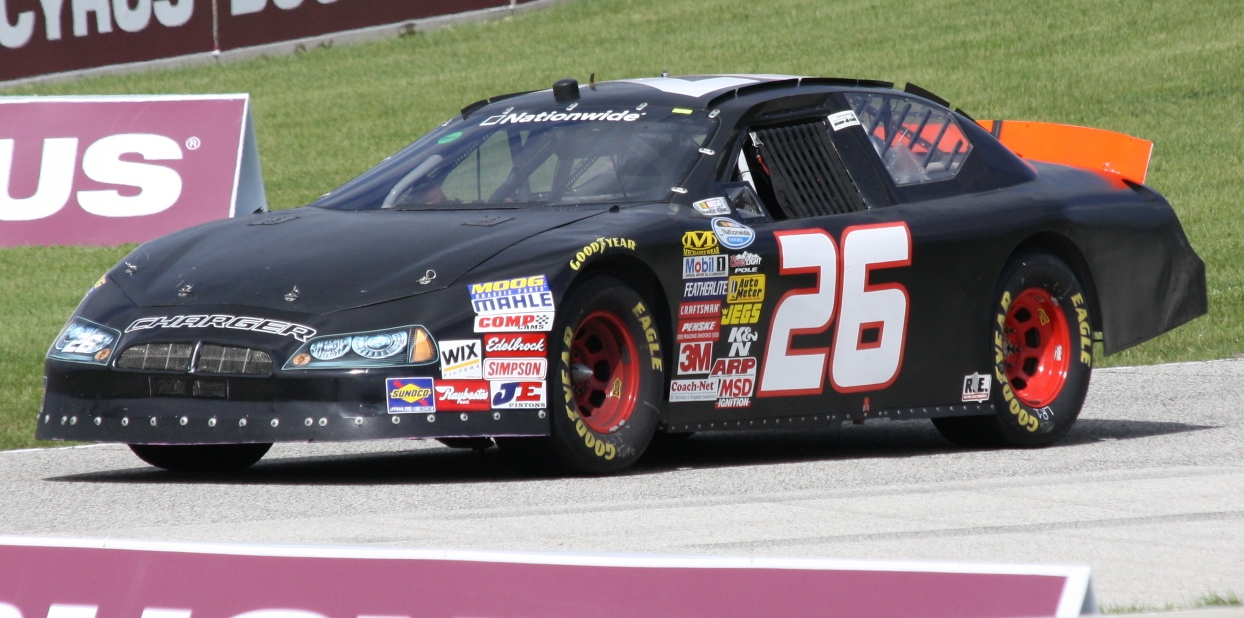 The NASCAR racecar for driver Brian Keselowski at the 2010 Bucyrus 200 at Road America.